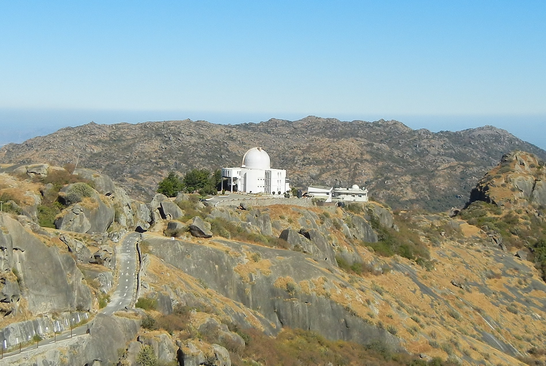 Observatory with Infrared Telescope located in Mount Abu, Rajasthan.